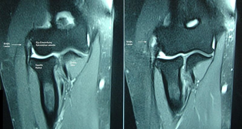 Epicondylitis in MRI